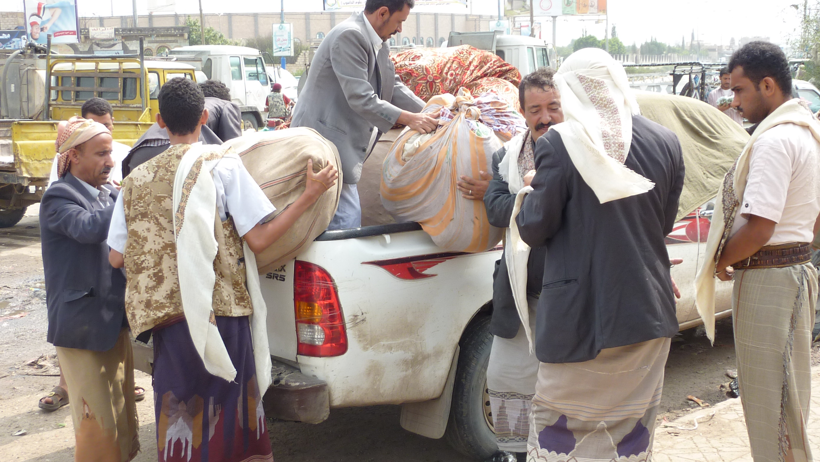 Khat traders in Yemen.